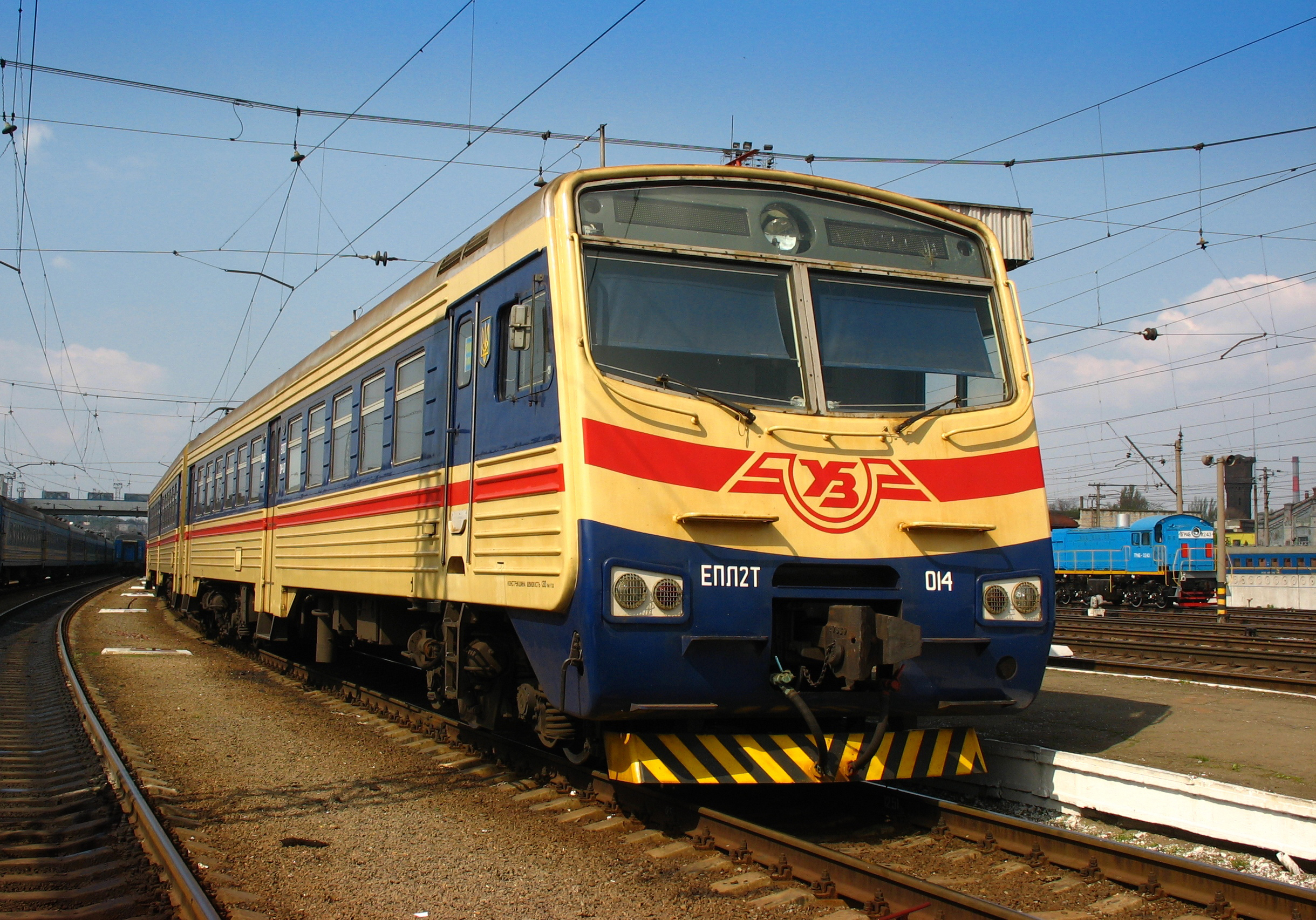 EPL2T Ukrainian electric multiple unit (2006 year of issue)